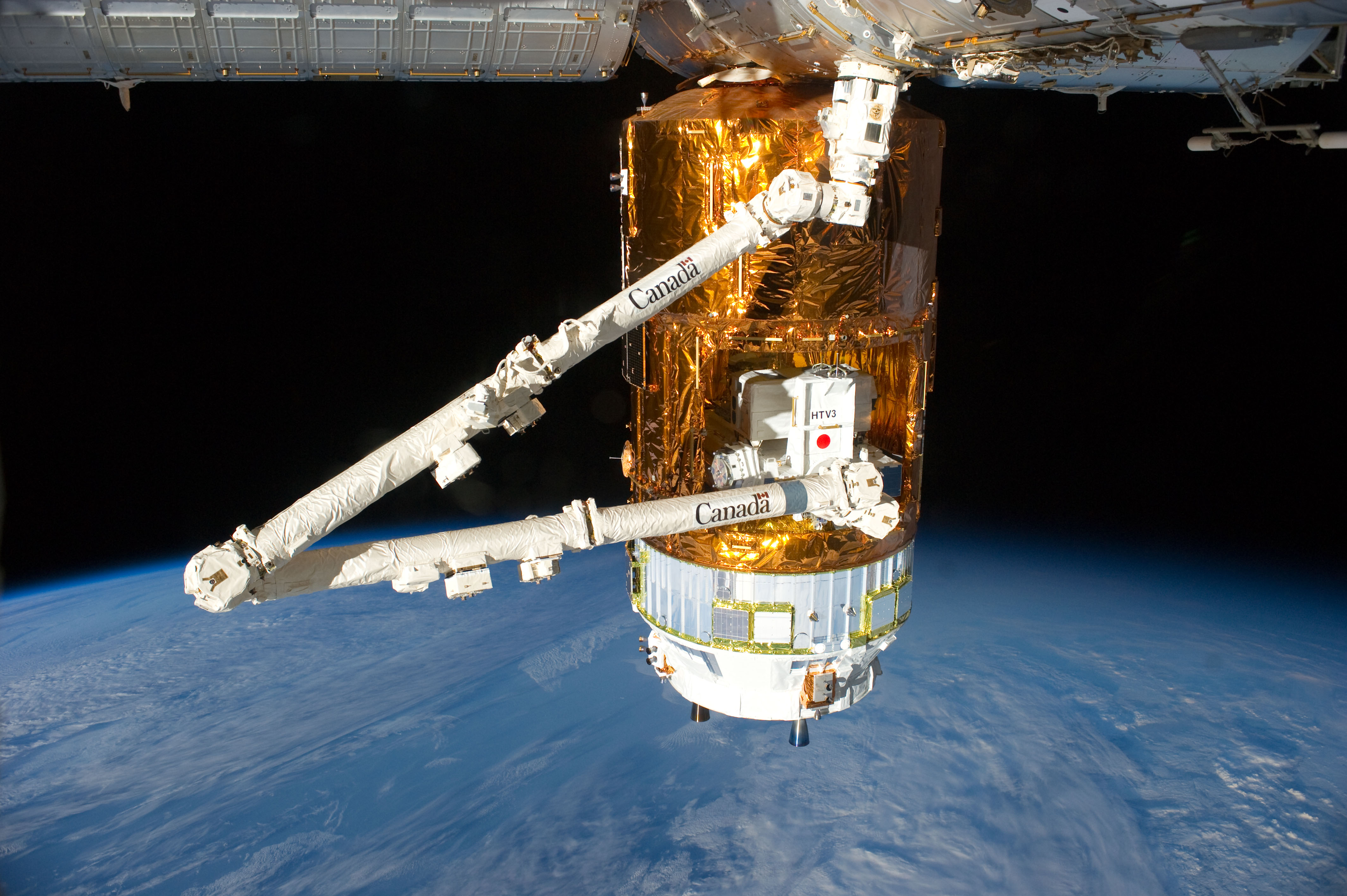 The Japan Aerospace Exploration Agency (JAXA) H-II Transfer Vehicle (HTV-3), currently attached to the Earth-facing port of the International Space Station's Harmony node, is featured in this image photographed by an Expedition 32 crew member on the station. Earth's horizon and the blackness of space provide the backdrop for the scene.